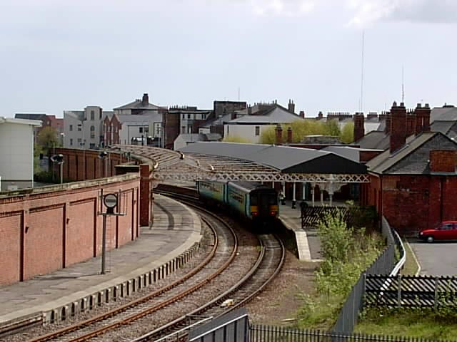 Hartlepool Railway Station. Has seen better days,rail service is diminishing.